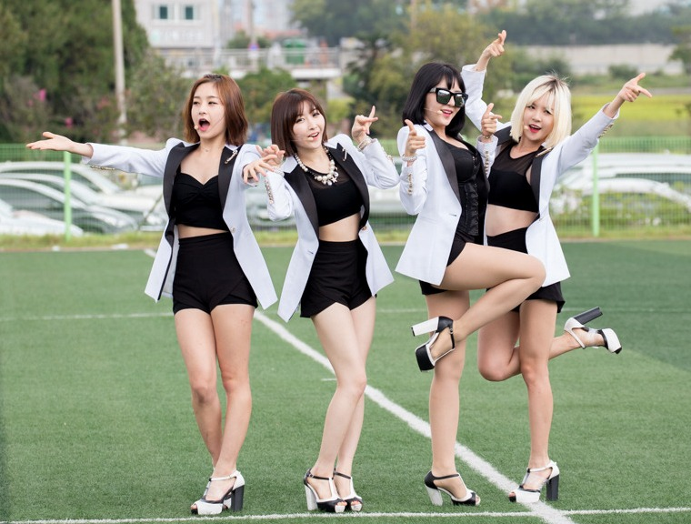 Bob Girls (Korean: 단발머리) performing at Gyeongnam Provincial Namhae College